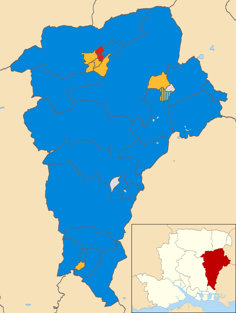 Election map for the east Hampshire council election results in 2015.